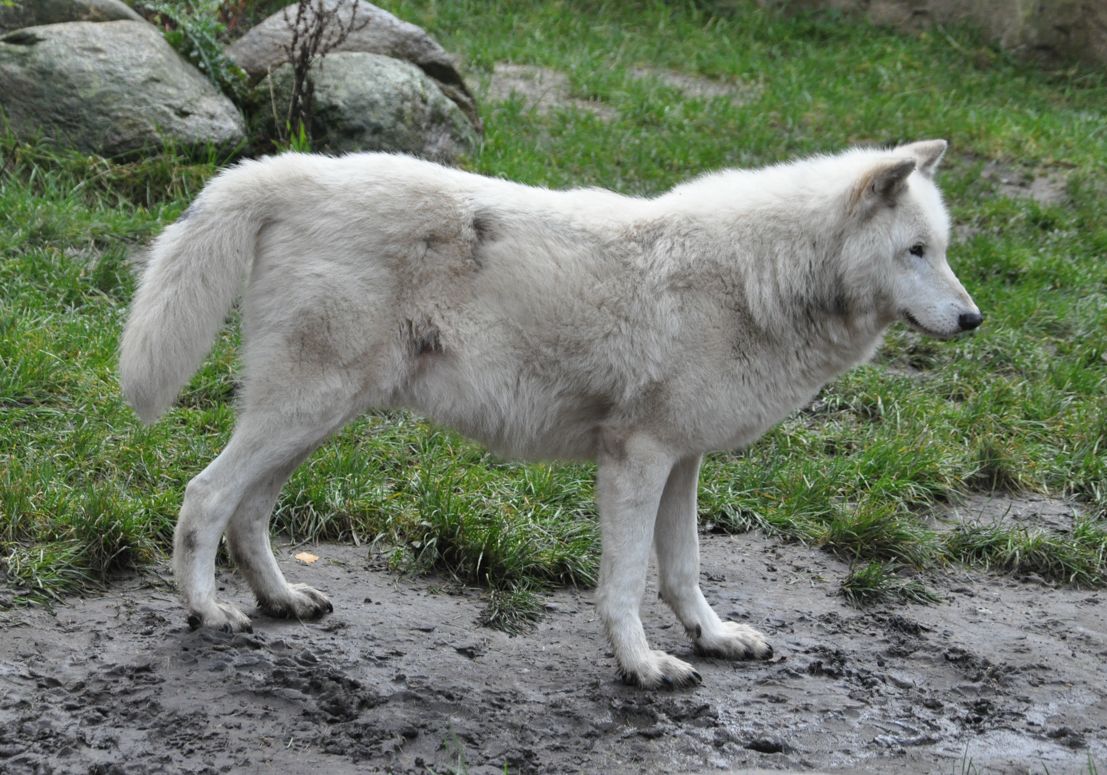 Arctic Wolf (Canis lupus arctos) in the Lüneburg Heath wildlife park, Germany.